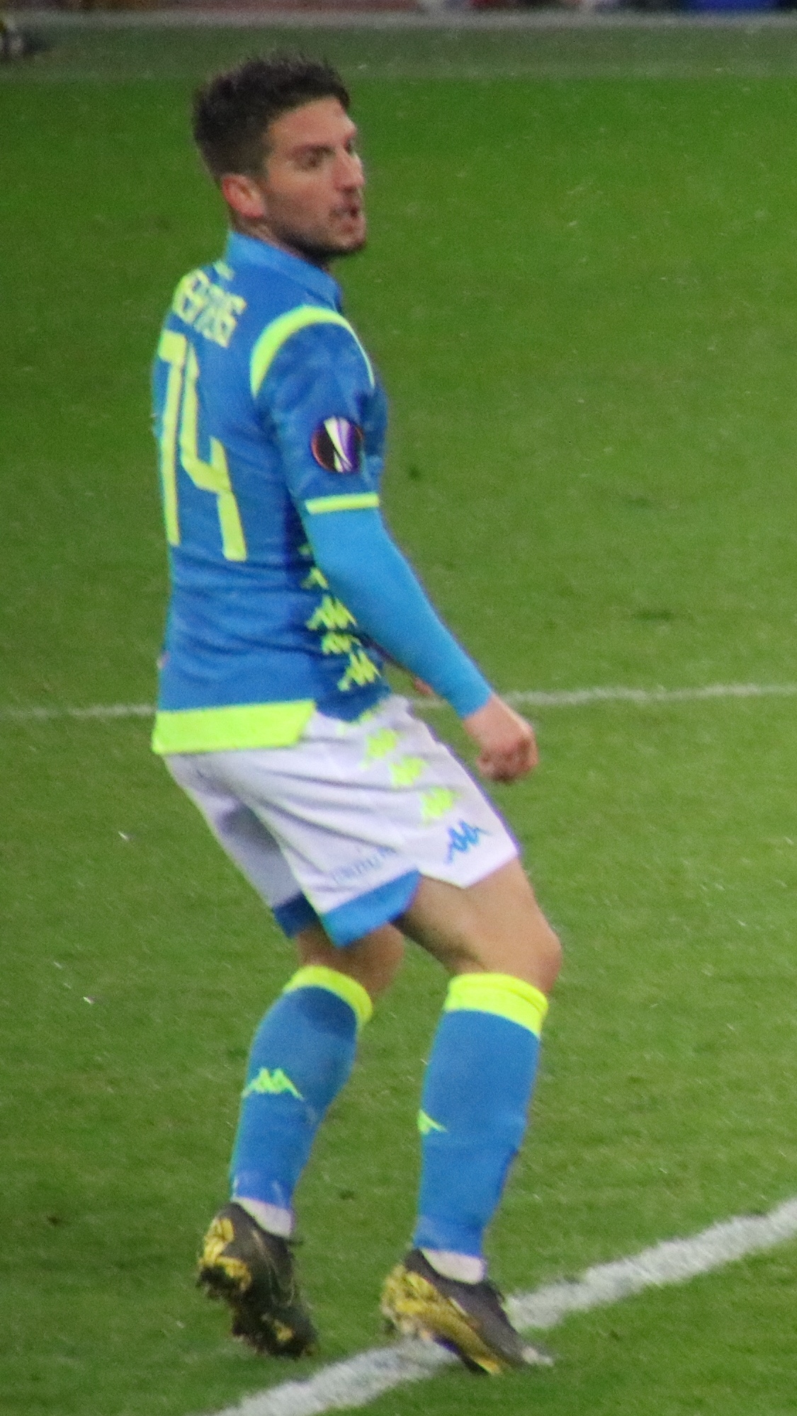 Euro League match round of 16 2nd leg: Dries Mertens.